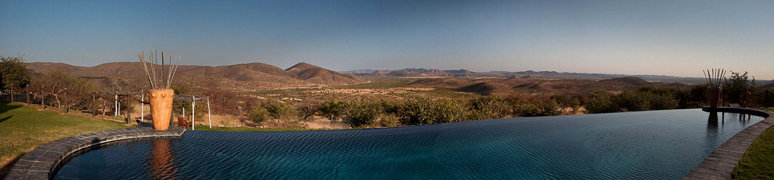 Opuwo Country Hotel was officially opened by His Excellency, Hifikipunyu Pohamba on 25 August 2005.